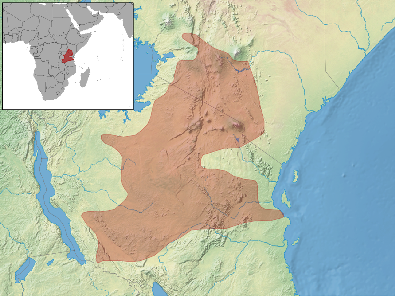 geographic distribution of Pedetes surdaster